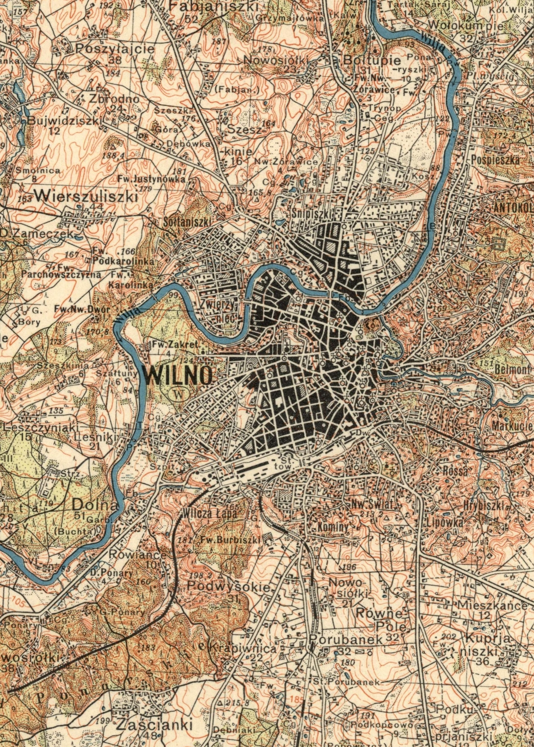 Old topographic map of Vilnius. Military map of Poland made by Polish Army before 1939.